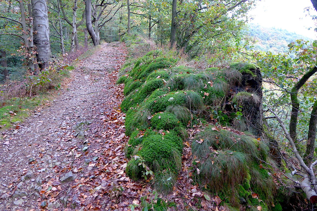 "Blade track" - the tourist marked route around the German city of Solingen (Northern Rhine-Westphalia). 5th stage: along the river Wupper. 9,2 km.